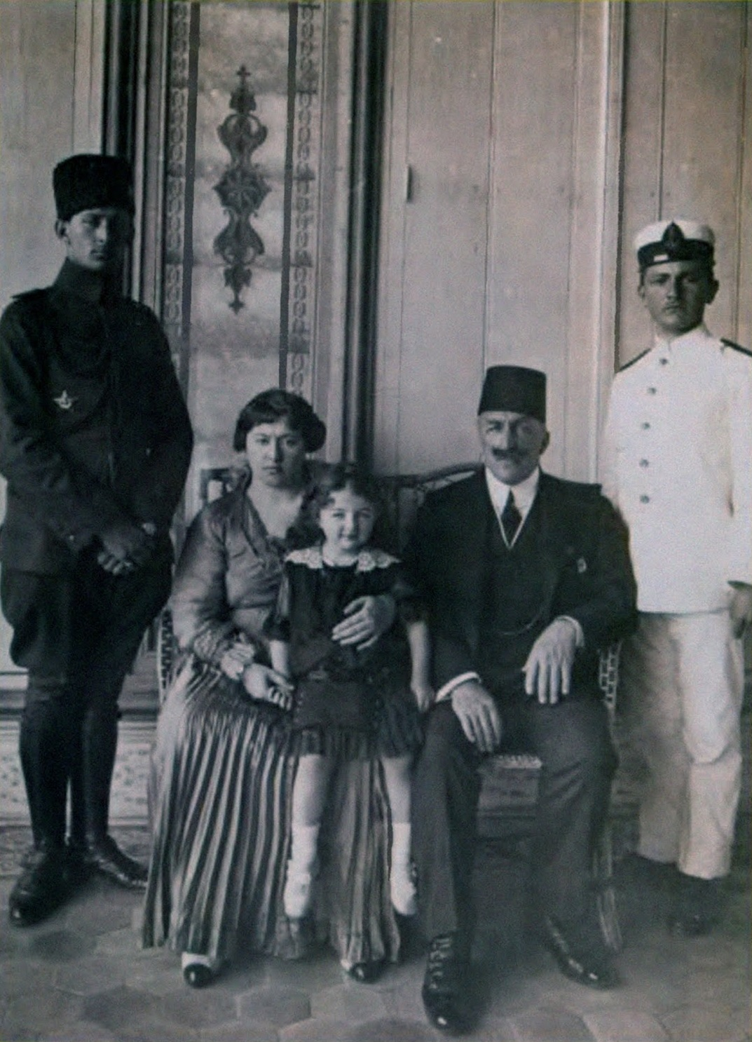 Princess Durrushehvar with her father Abdulmejid, and mother Mehisti Hanim.